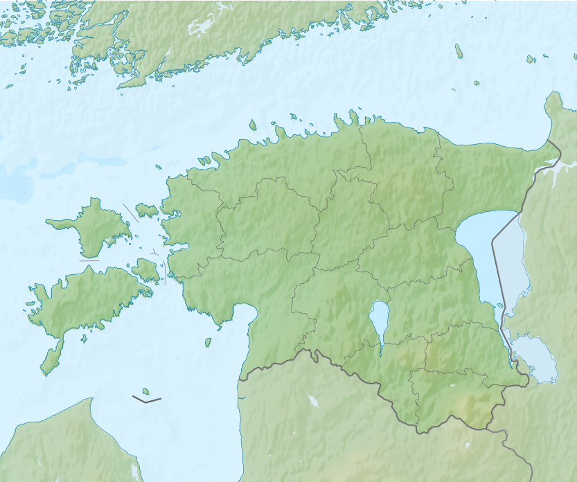 Relief map of Estonia.